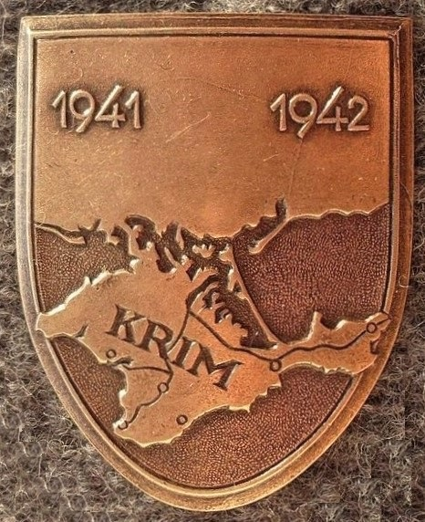 Crimea Campaign Shield, 1941-42. Obverse. Post war de-nazified version, 1957.